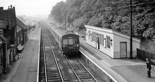 Brampton (Cumberland) Station, with train. View SW, towards Carlisle; ex-NER Newcastle - Carlisle main line. A 'vintage' DMU is arriving (?passing) on a Carlisle - Newcastle service.